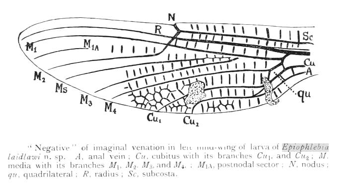 Venation of Epiophlebia laidlawi (based on larva)